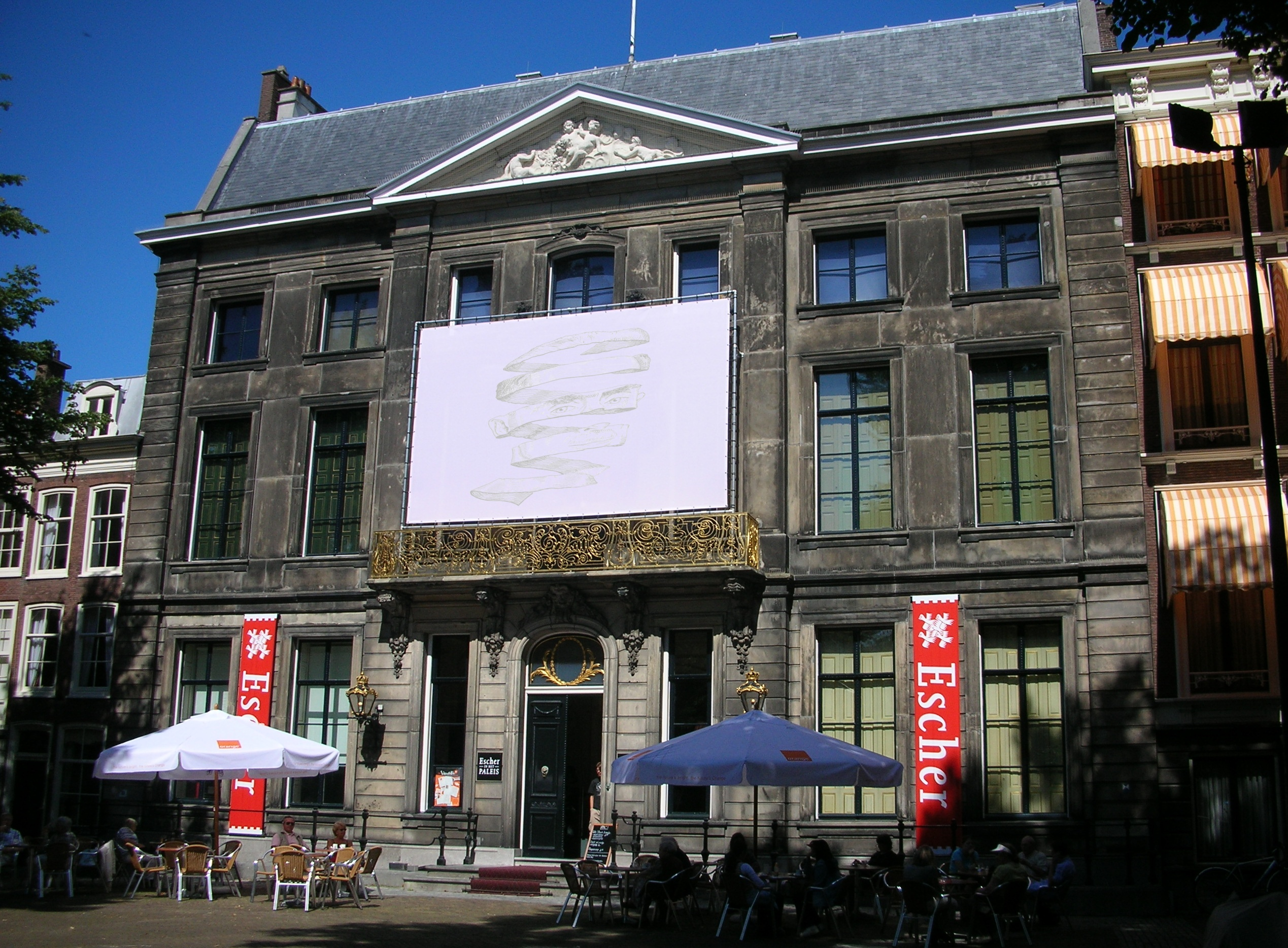 Escher museum in Paleis Lange Voorhout, The Hague, Netherlands.